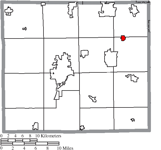 Map of the municipal and township boundaries of Wayne County, Ohio, United States, as of the 2000 census, with the location of the village of Marshallville highlighted. Township borders are shown only in unincorporated areas in order to differentiate incorporated and unincorporated areas more clearly.